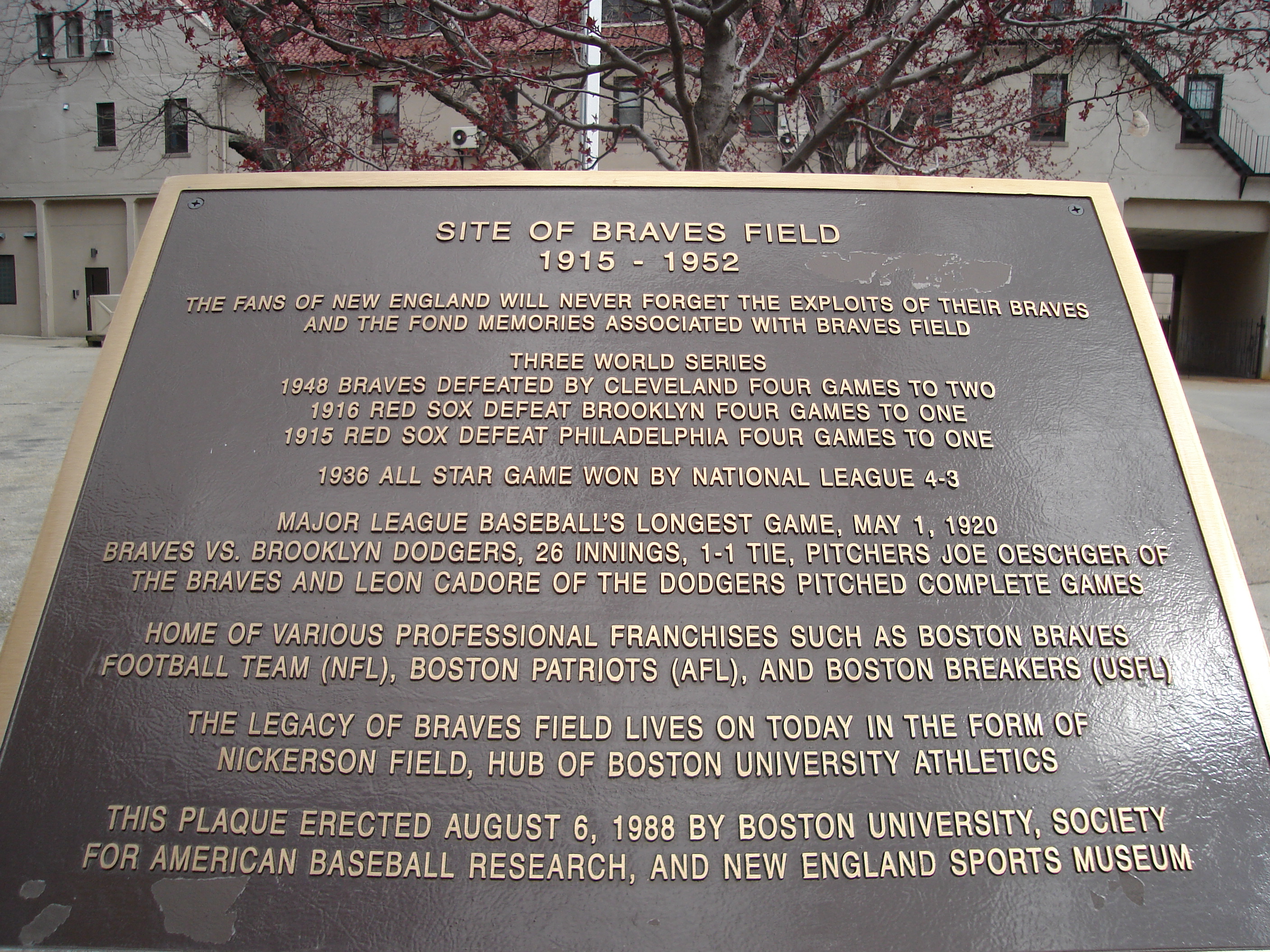 Plaque outside Boston University's Nickerson Field commemorating the existence of Braves Field.